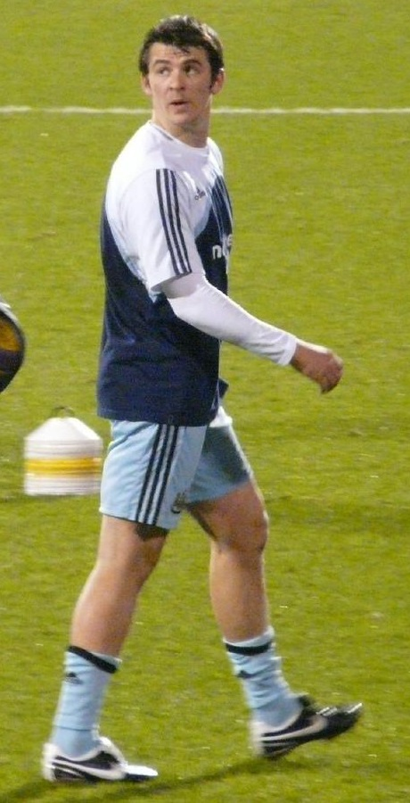 English football (soccer) player Joey Barton